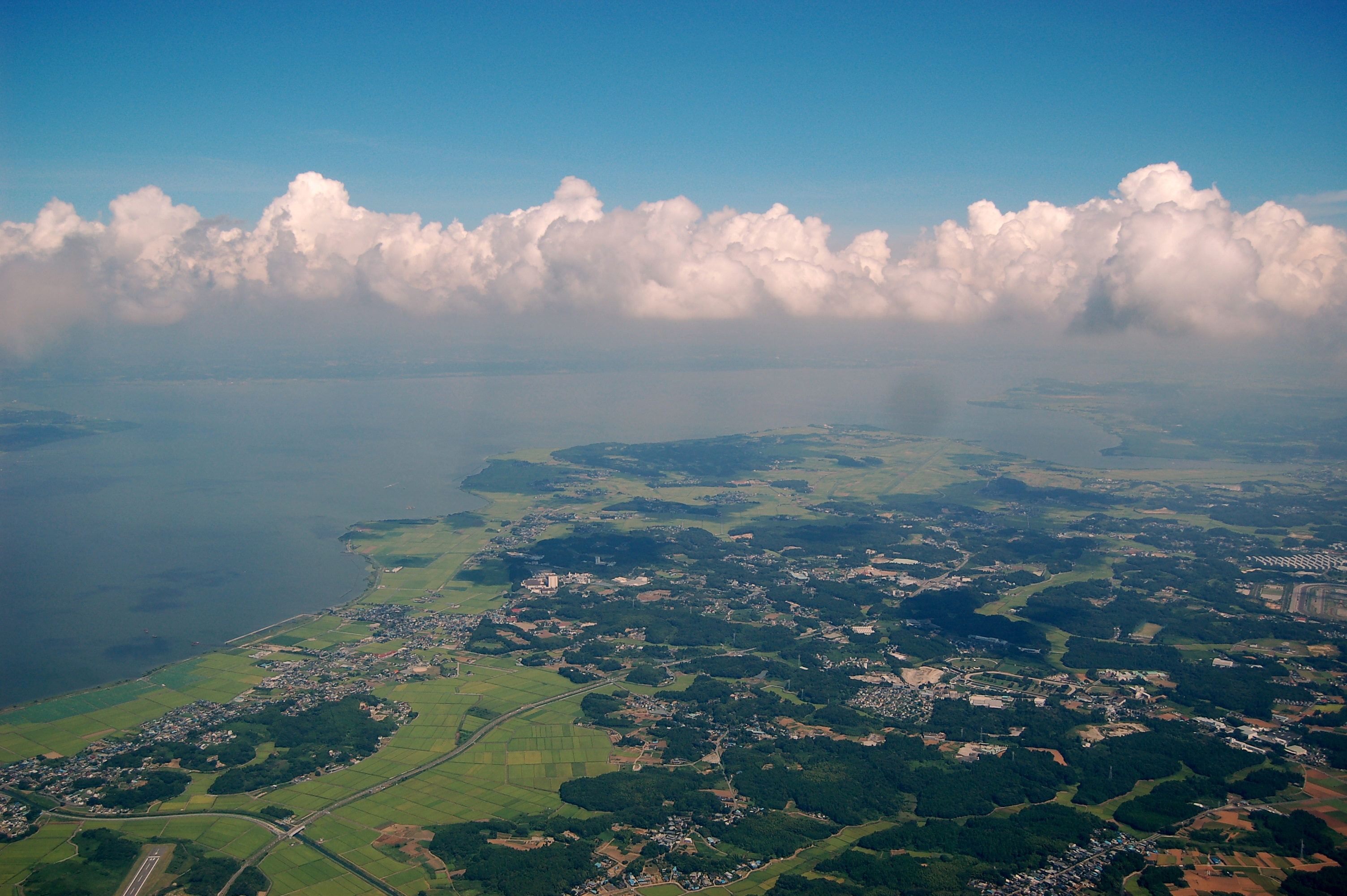 A view of Miho Village in Ibaraki Prefecture, Japan. Lake Kasumigaura on the left.